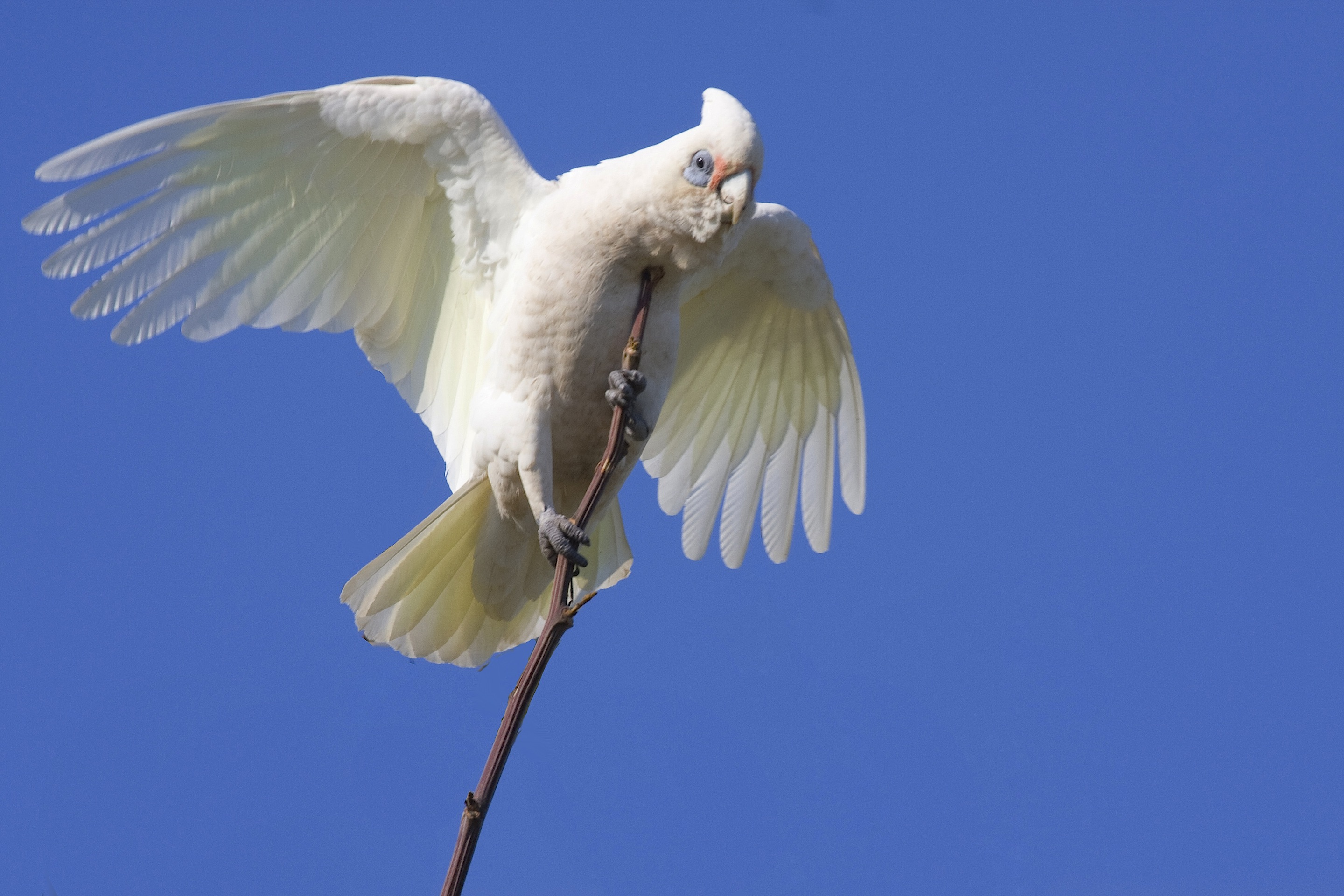 A Little Corella in Australia.